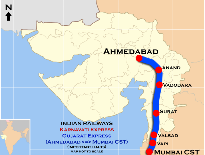 Gujarat Express and Karnavati Express (Mumbai CST - Ahmadabad) Route map